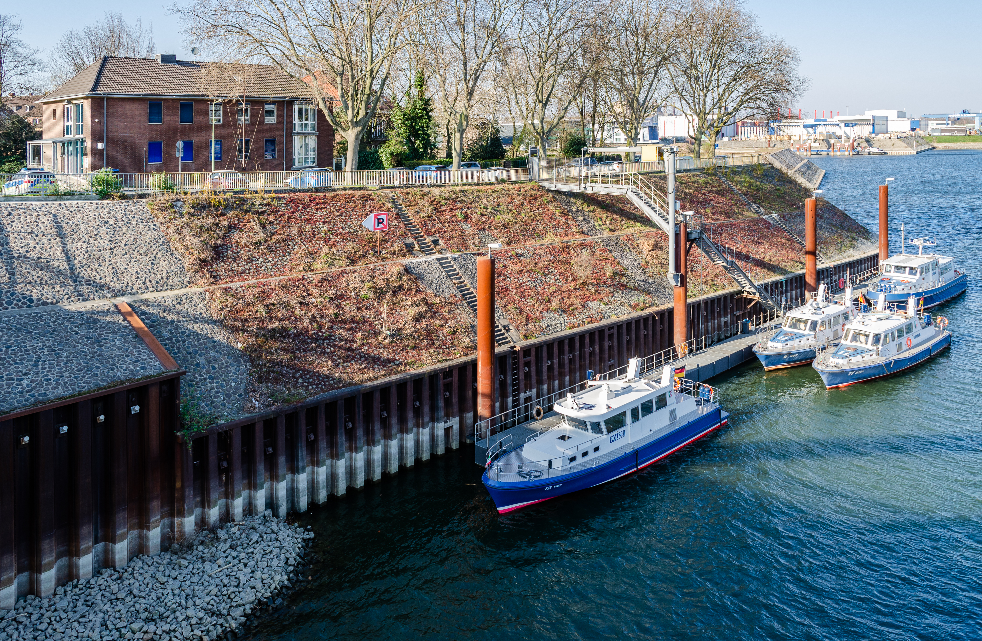 Duisburg (North Rhine-Westphalia, Germany) – borough Homberg/Ruhrort/Baerl, district Ruhrort – Vincke Canal – station of the North Rhine-Westphalian Water Police